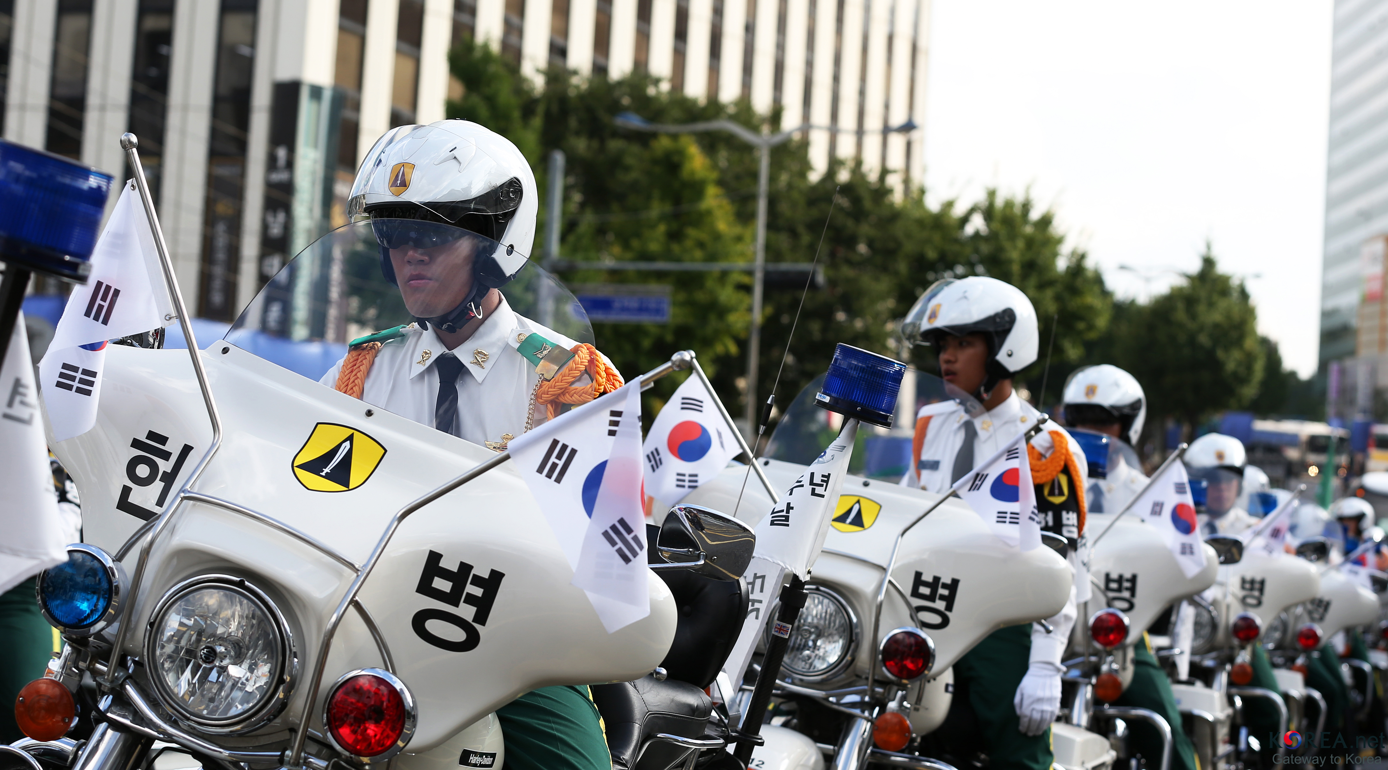 The 65th Anniversary of the Armed Forces Day